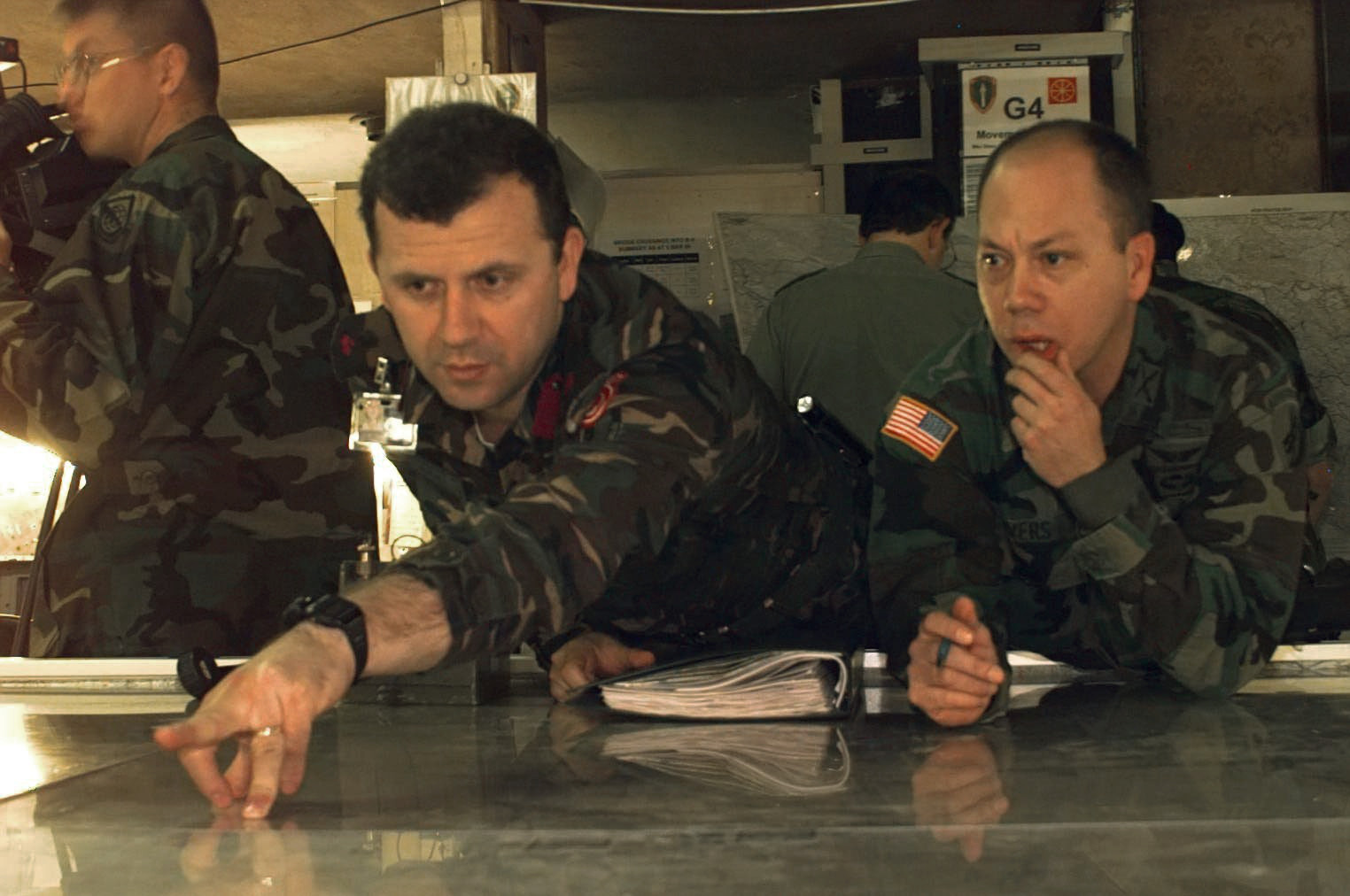 Lieutenant Colonel Simon Porter and Lieutenant Colonel Tim Sweet, G-3 Operations SO1, works on a report for the commander at the Allied Command Europe Rapid Reaction Corps Headquarters located in the Sarajevo Suburb of Ilidza, Bosnia during Operation Joint Endeavor on May 3rd 1996.